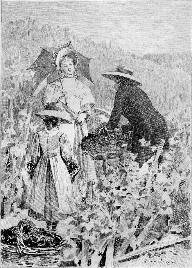 Illustration of Honoré de Balzac's The Lily of the Valley (1836).